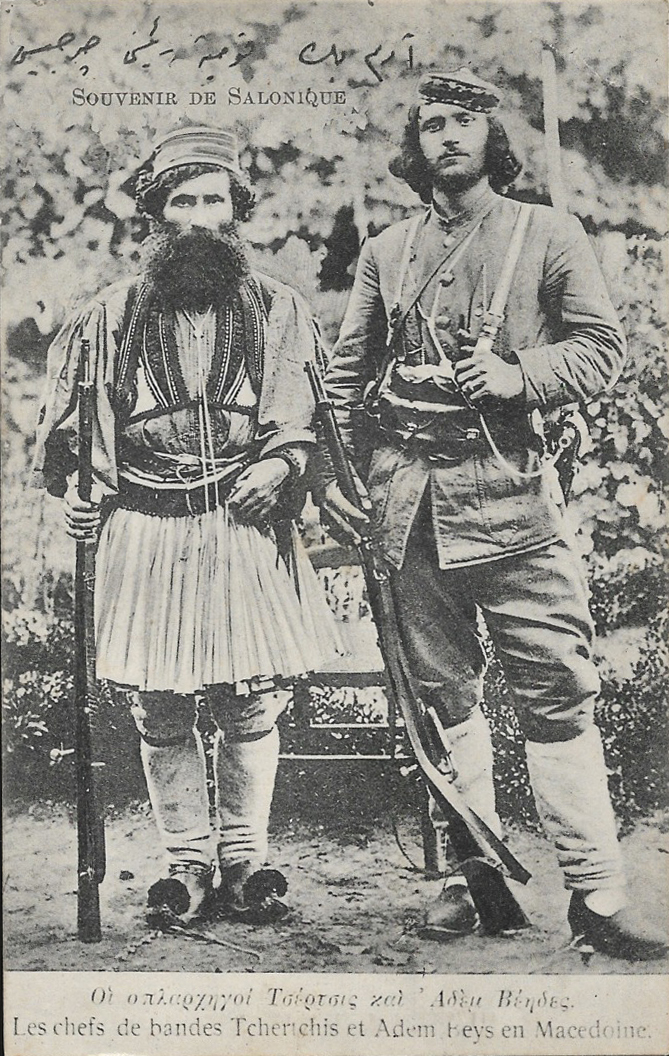 Çerçiz Topulli and Adam bey